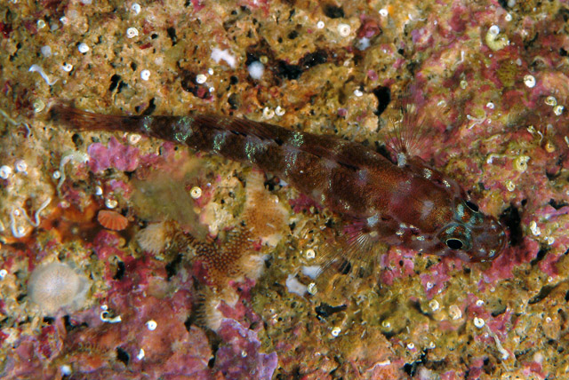 Gammogobius steinitzi photographed on Tuscany coast (Italy) between 15 and 35 m depth. Photo by Stefano Guerrieri.